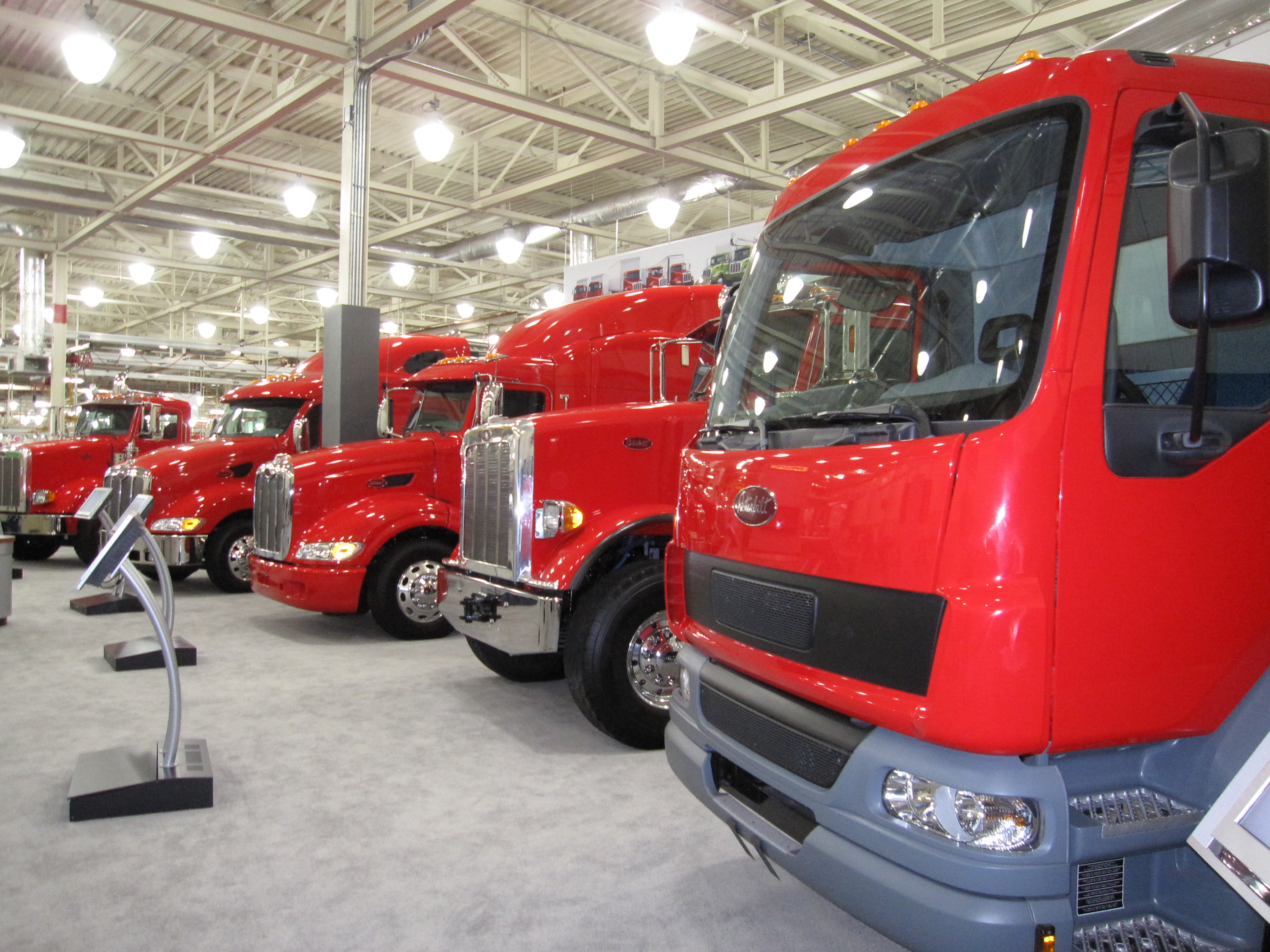 Peterbilt trucks